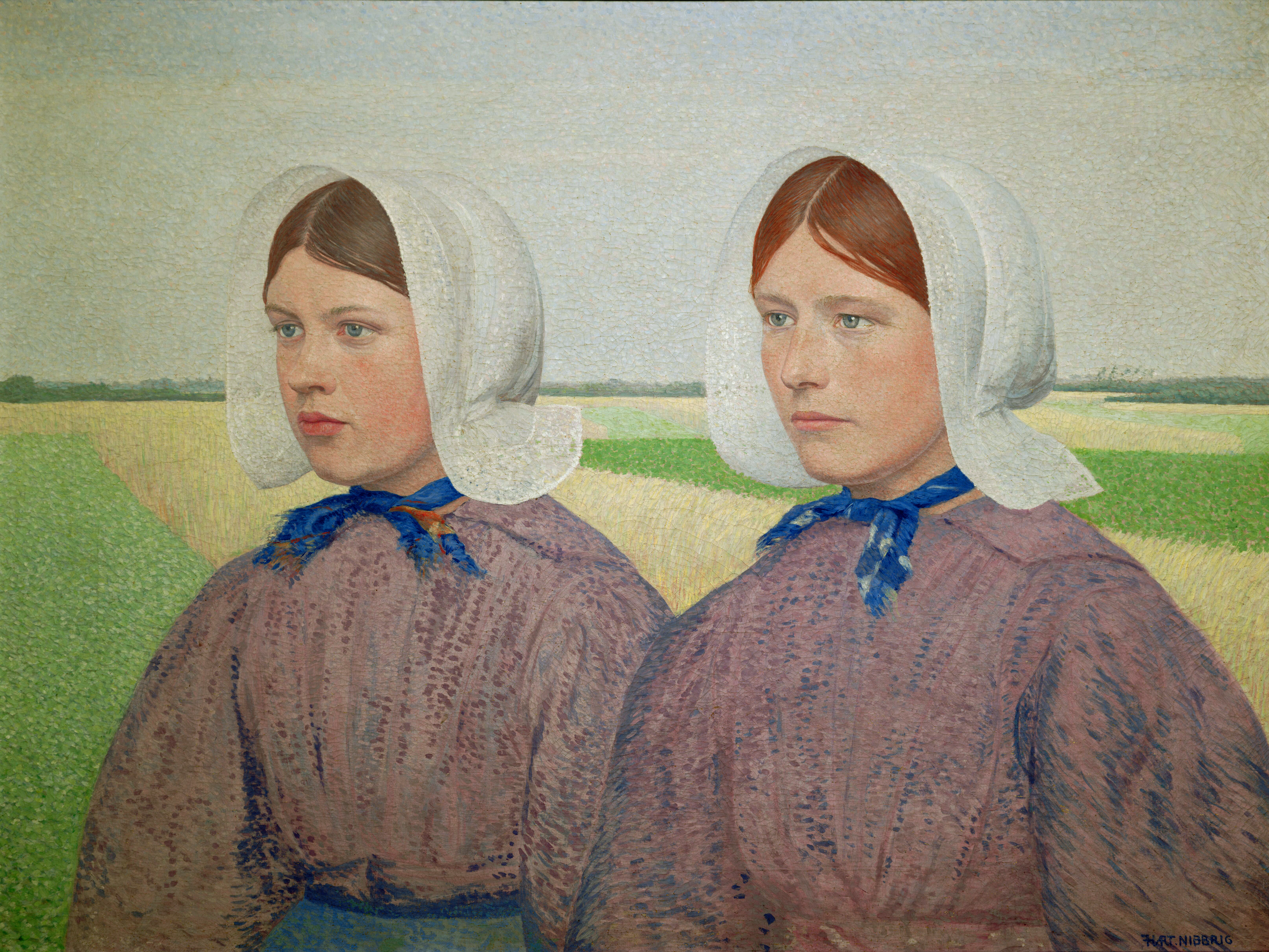 Deze Huizer meisjes dragen de isabee, een luifelmuts die gedragen werd zonder oorijzer oil on canvas ? x ? cm signed b.r.: FHart Nibbrig 1871 - 1915